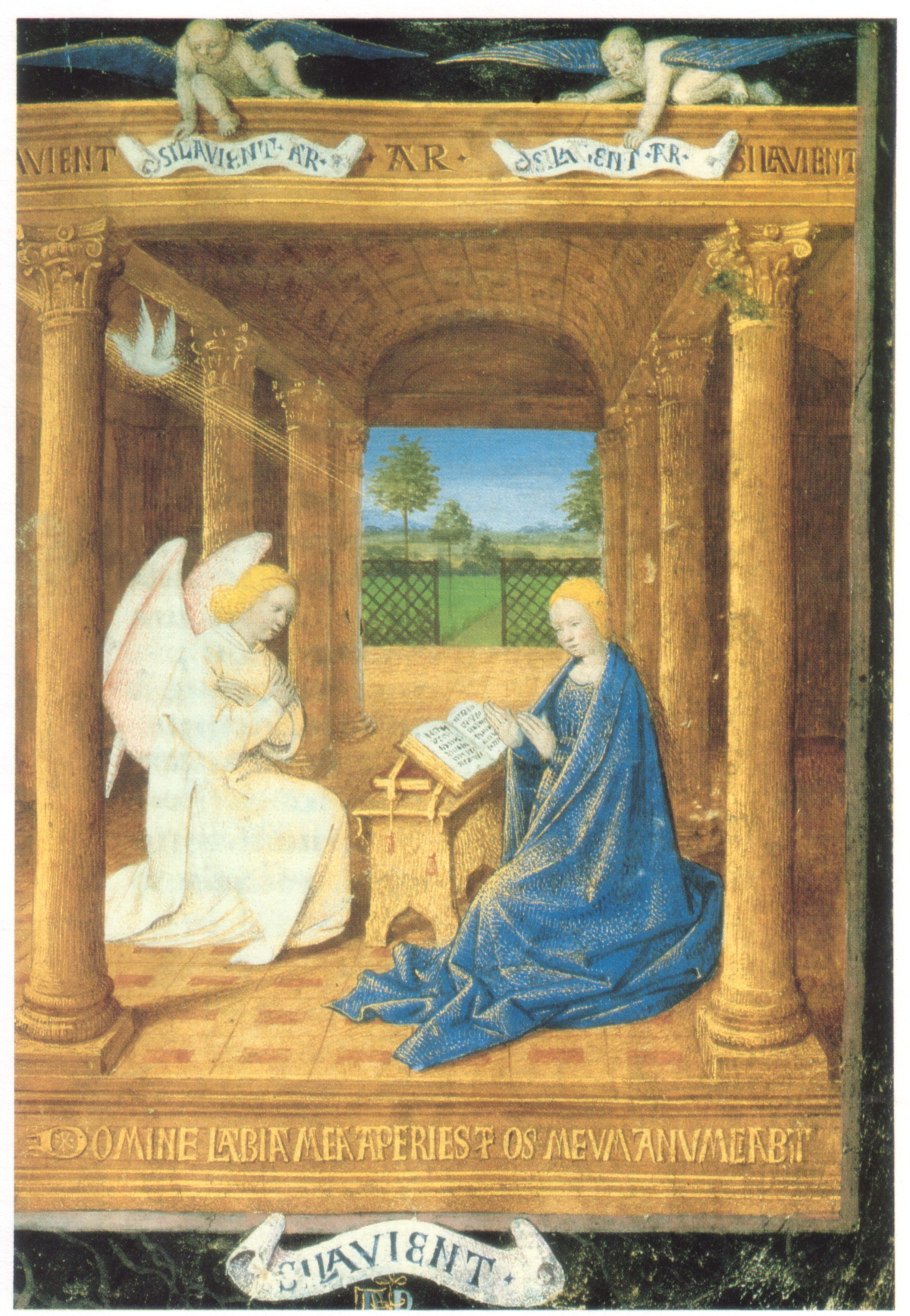 New York, Pierpont Morgan Library, M. 834, fol. 29